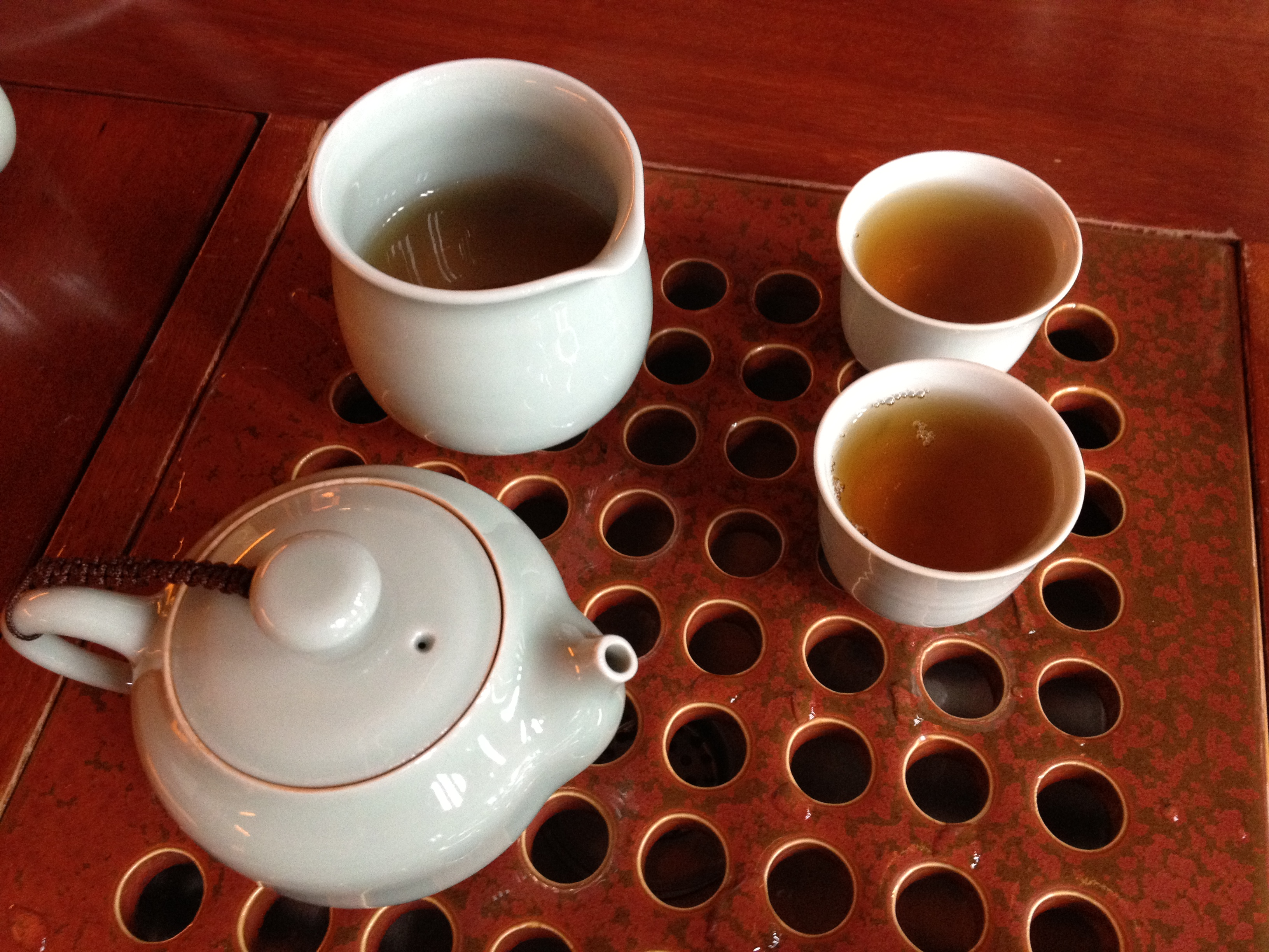 Chinese tea